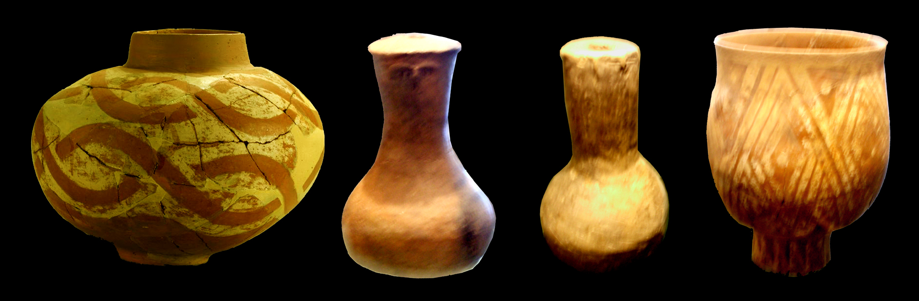 Bulgaria 6200BC neolithic Chavdar culture